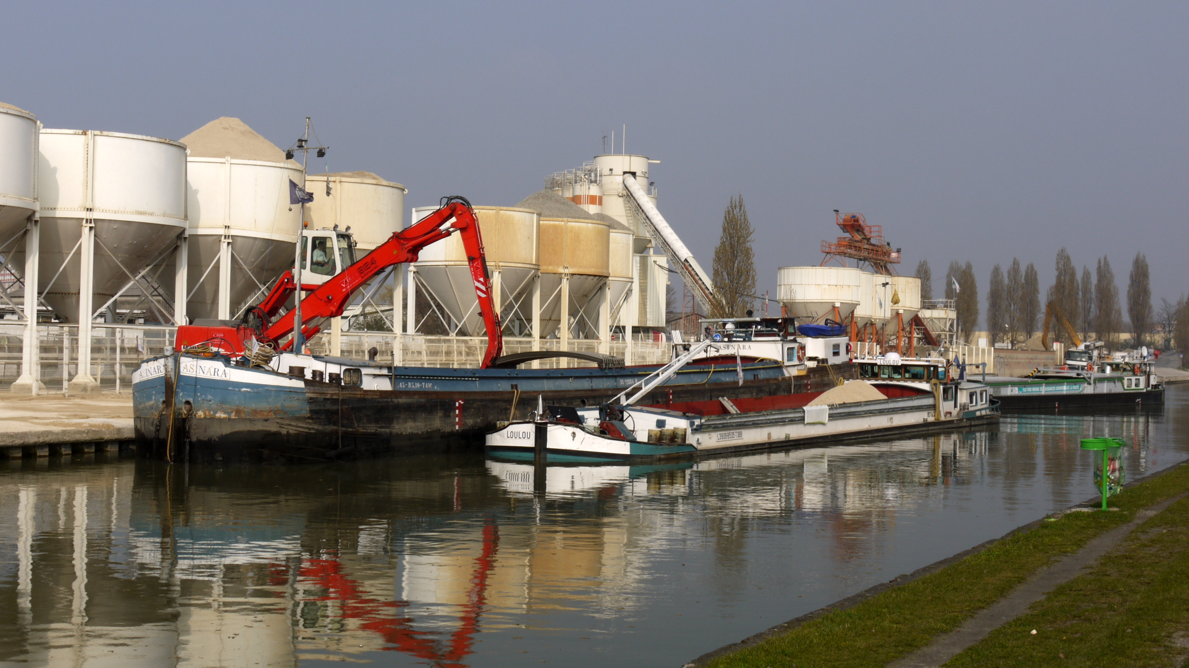 Port of Bondy on the canal de l'Ourcq, France